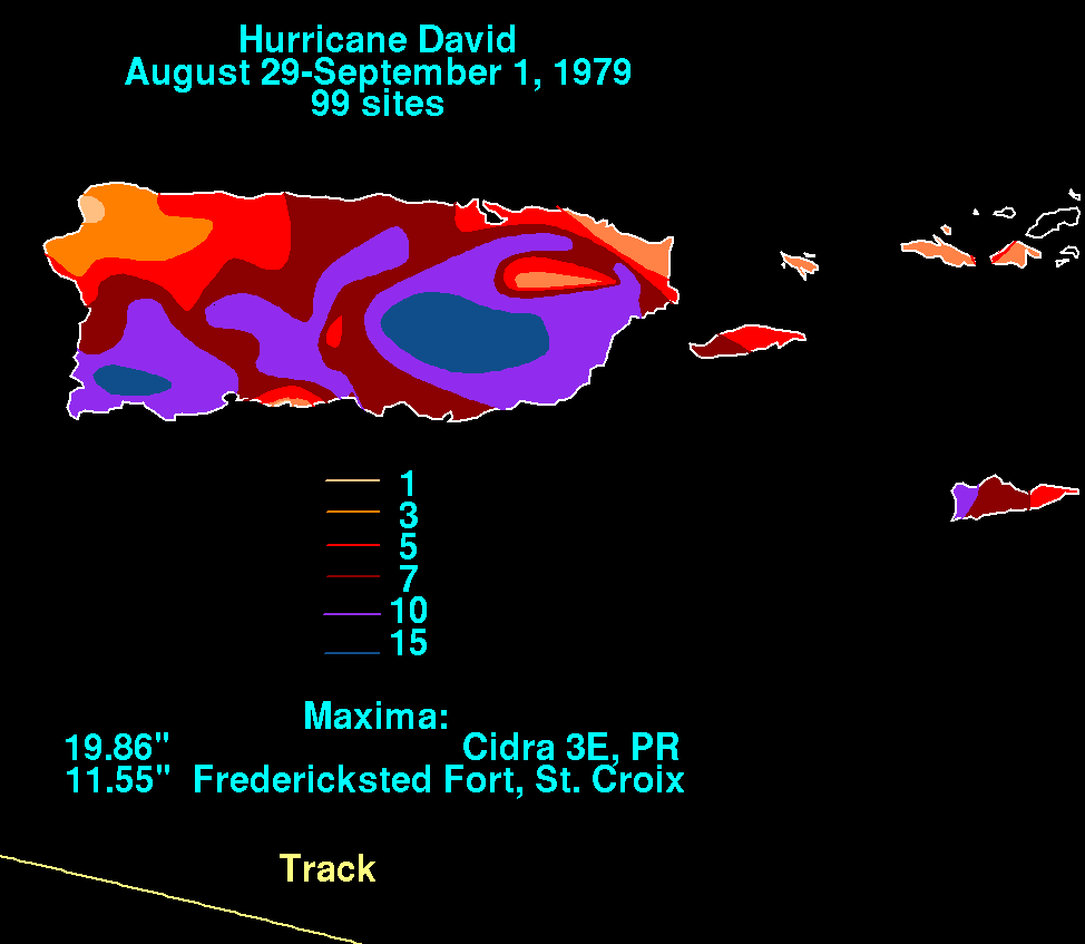 Storm total rainfall map of Hurricane David in Puerto Rico during August and September 1979.